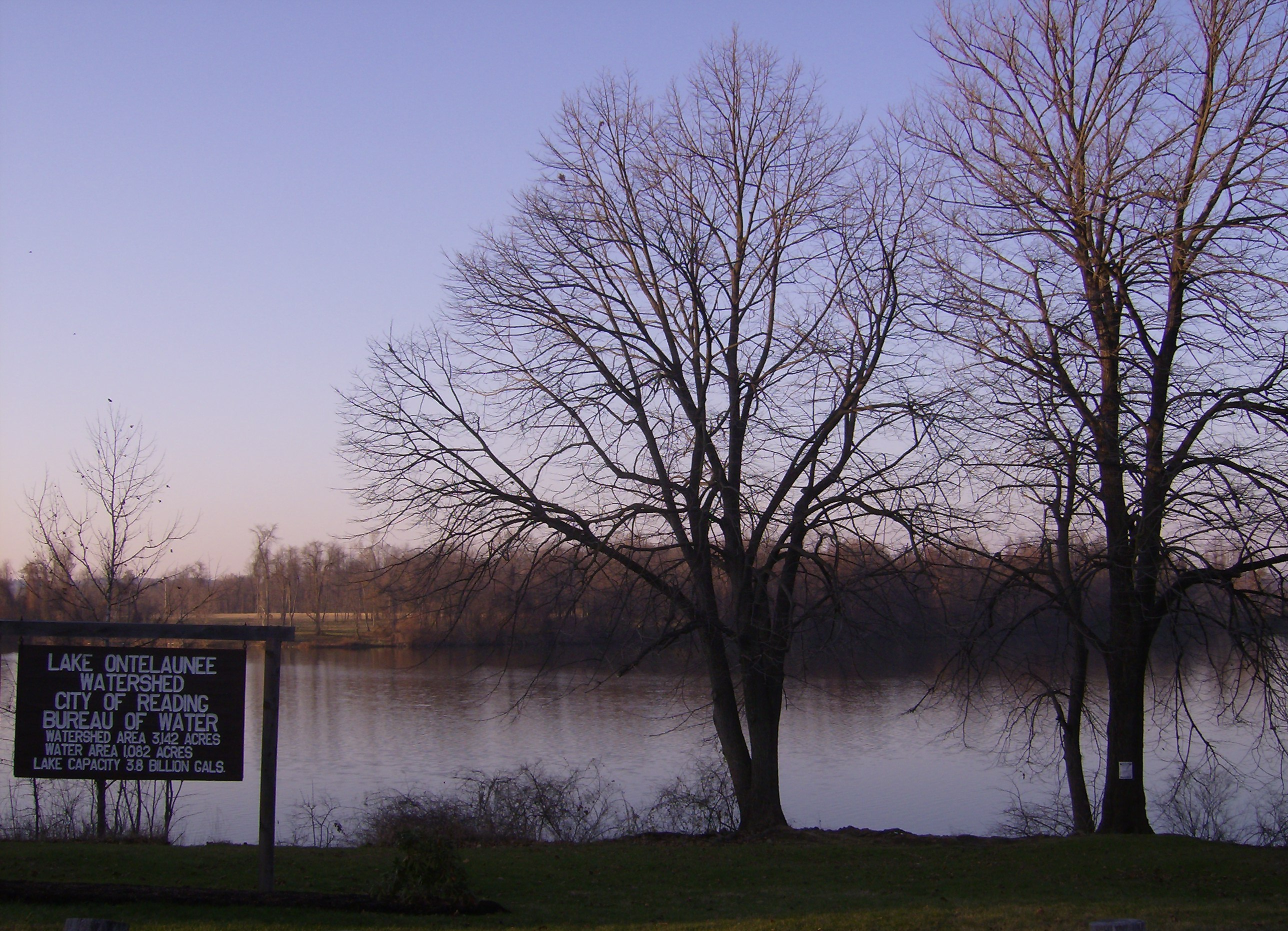 I took this picture of Lake Ontelaunee late one afternoon